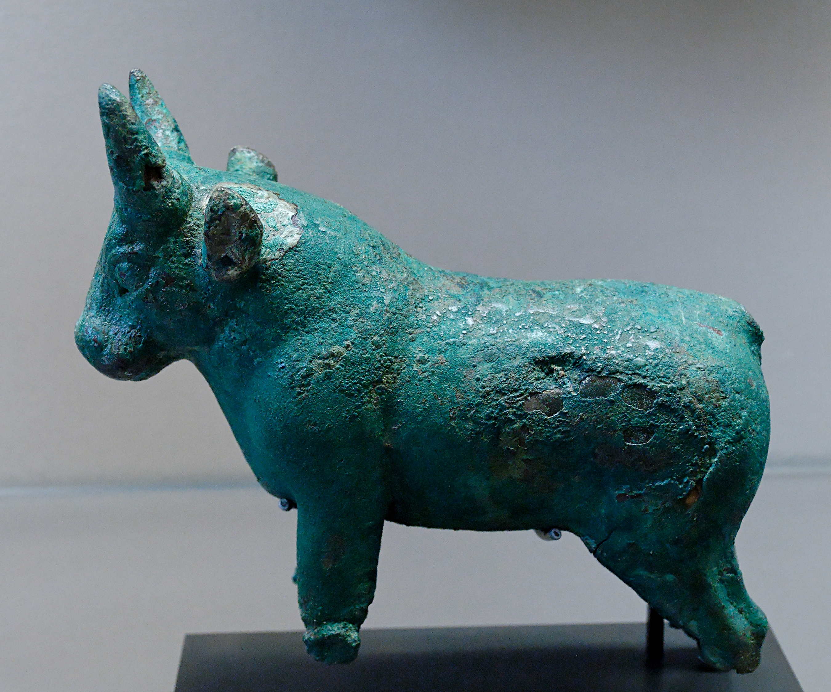 Statuette of a bull. Bronze, 1st century BC–2nd century AD, Southern Arabia.